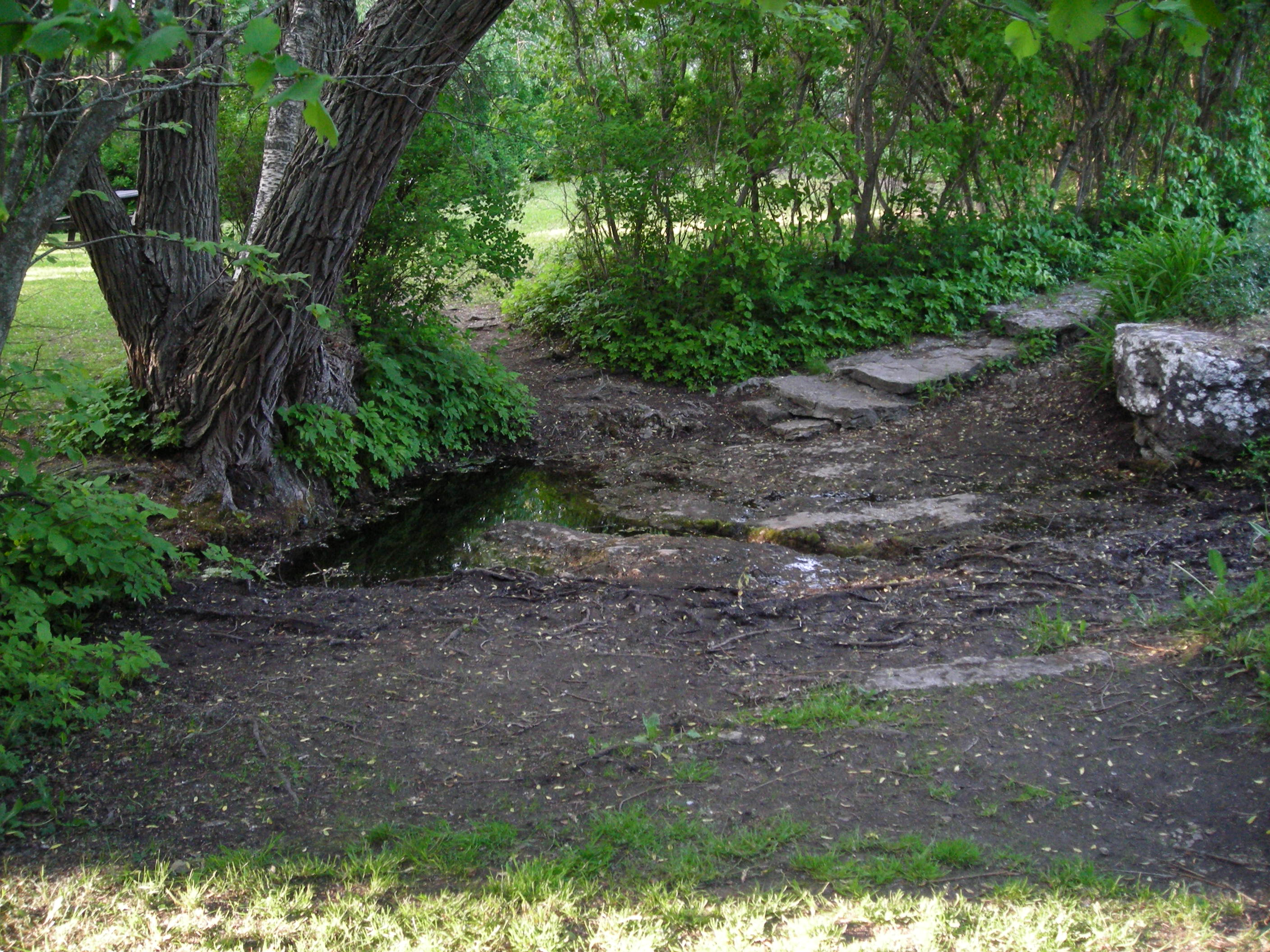 Hångers Källa, Gotland